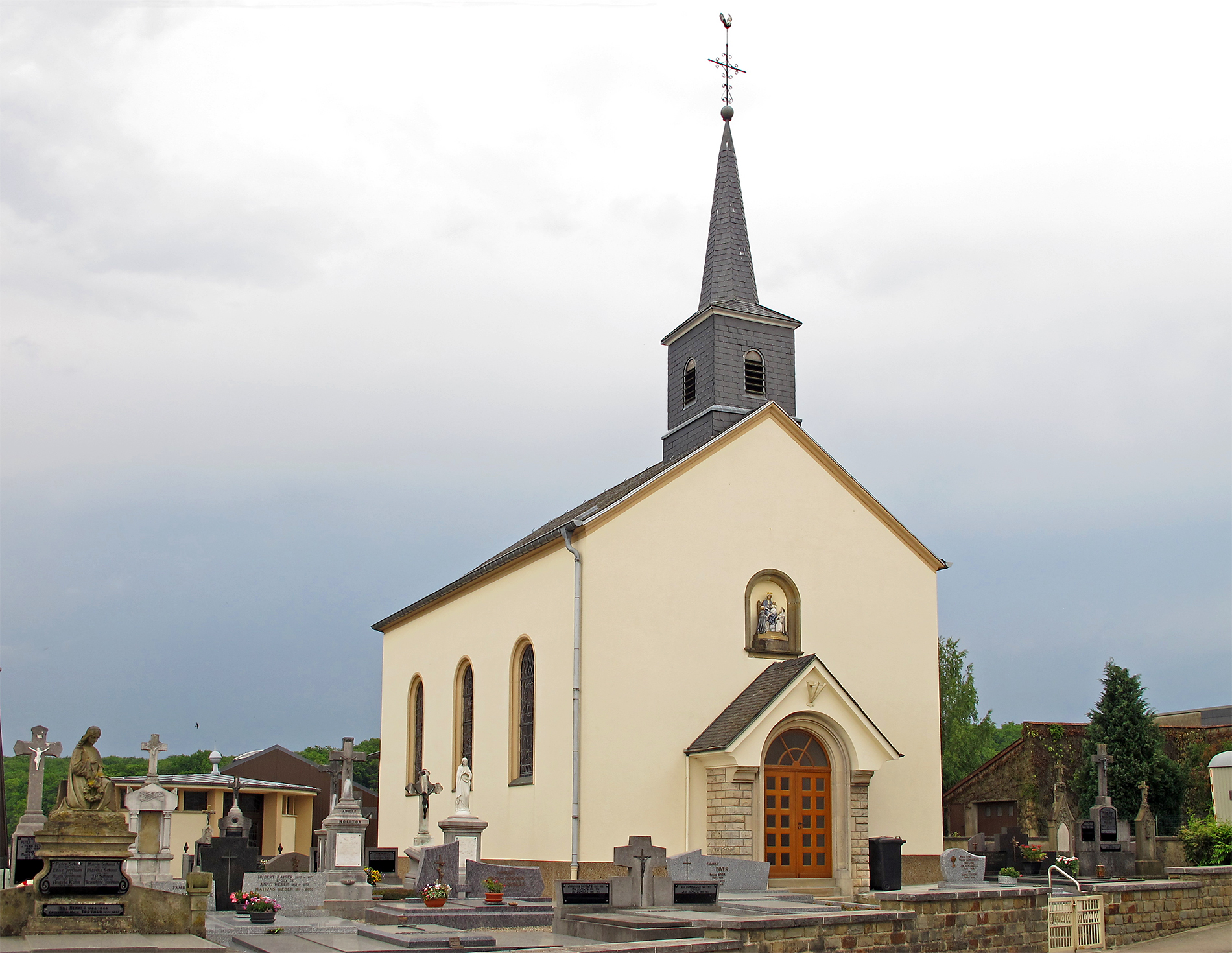 Church of Oberdonven, Luxembourg